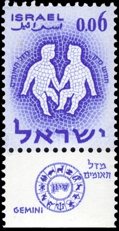 Zodiac I stamp - 0.06 Israeli lira - Sign of Gemini, Month of Sivan